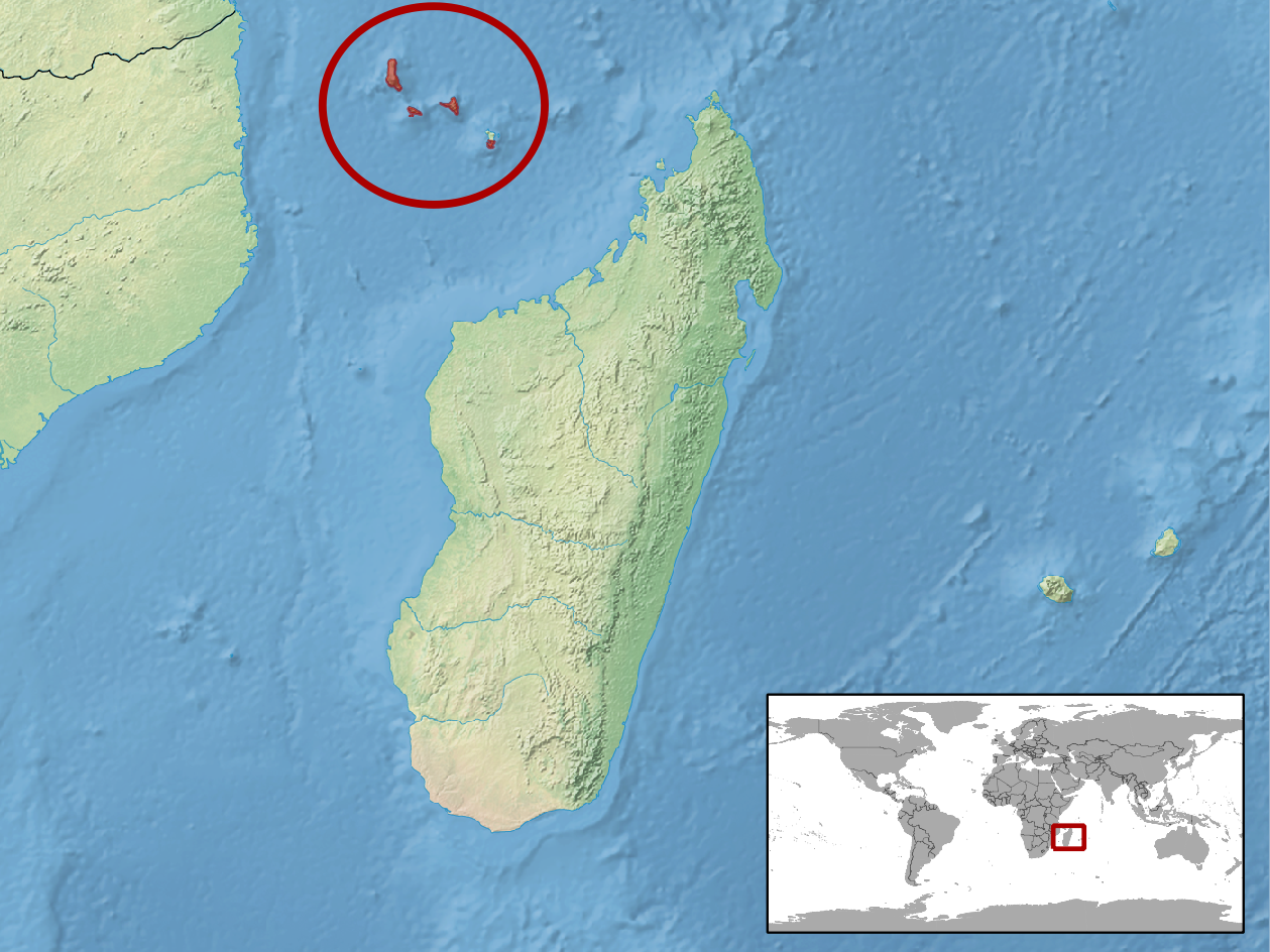 geographic distribution of Paroedura sanctijohannis (Native: Comoros; Mayotte)